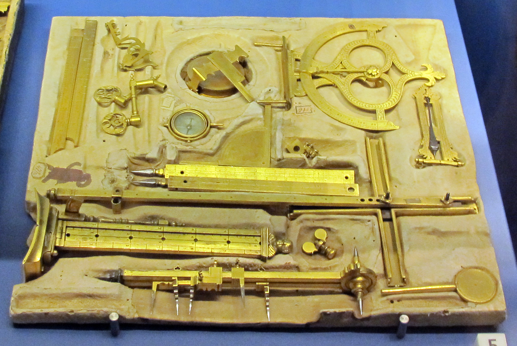 Box of mathematical instruments